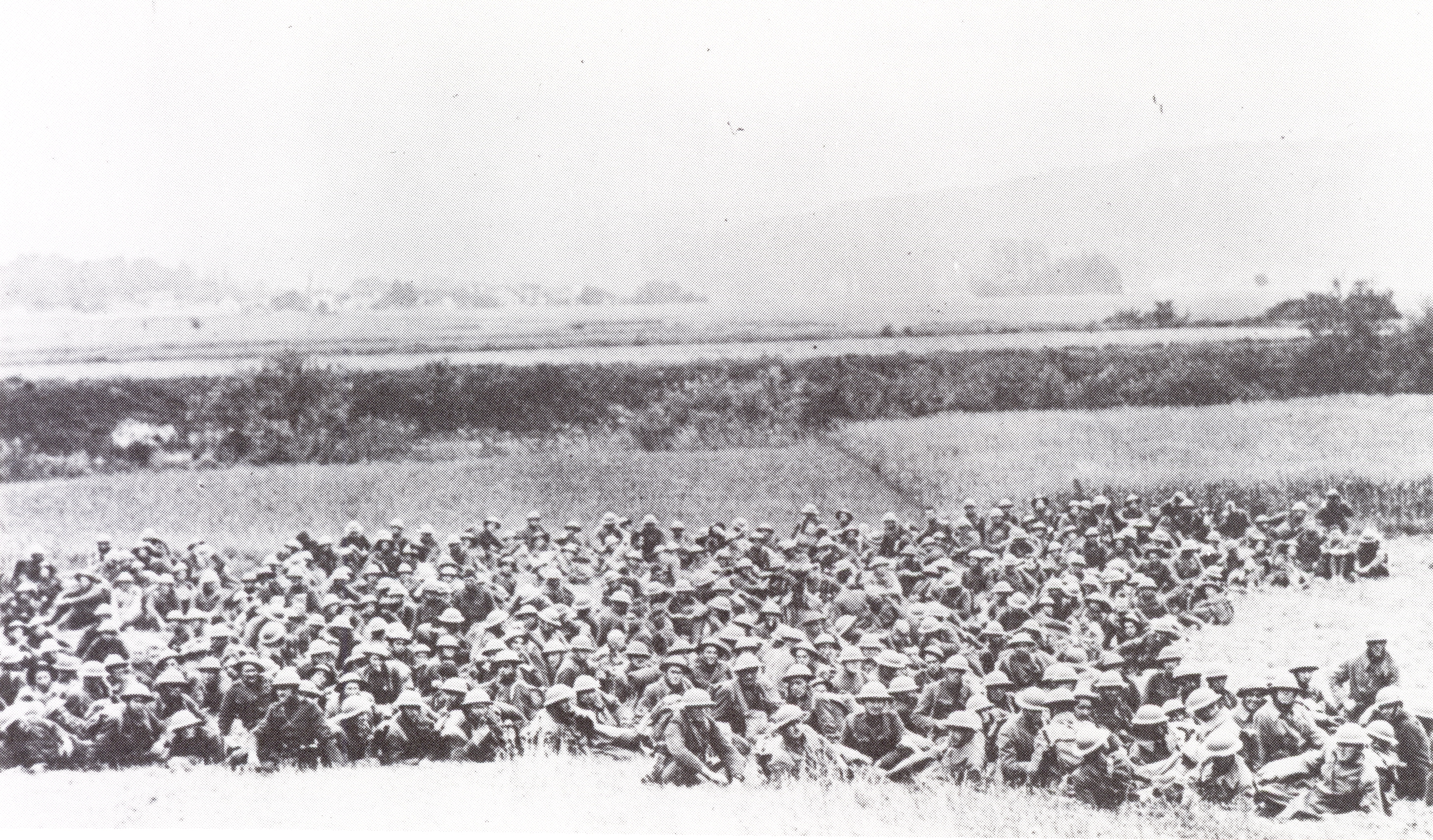 The fighting ended, exhausted and seriously depleted ranks of the 6th Marines gather outside Belleau Wood before moving on.